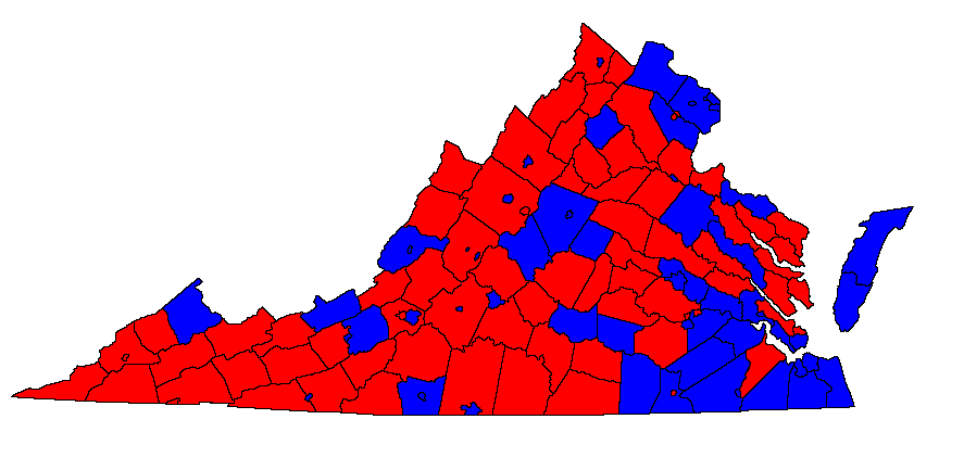 Map showing county choices during 2005 Gubernatorial Elections